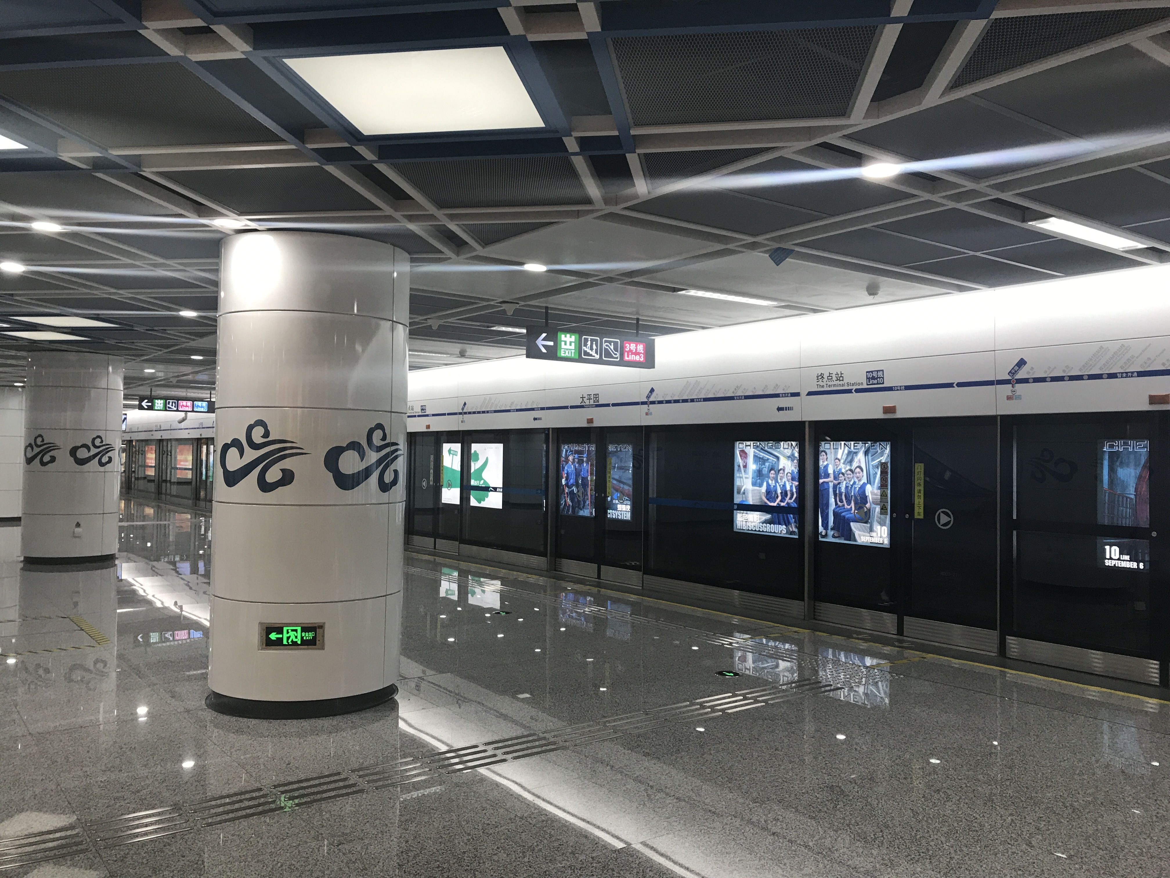 Platform of Line 10 in Taipingyuan Station, Chengdu Metro